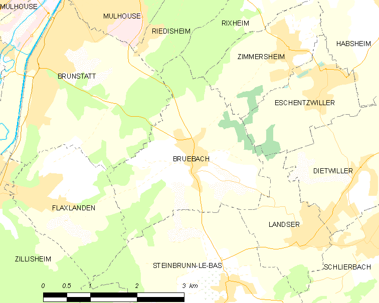 Map of French municipality